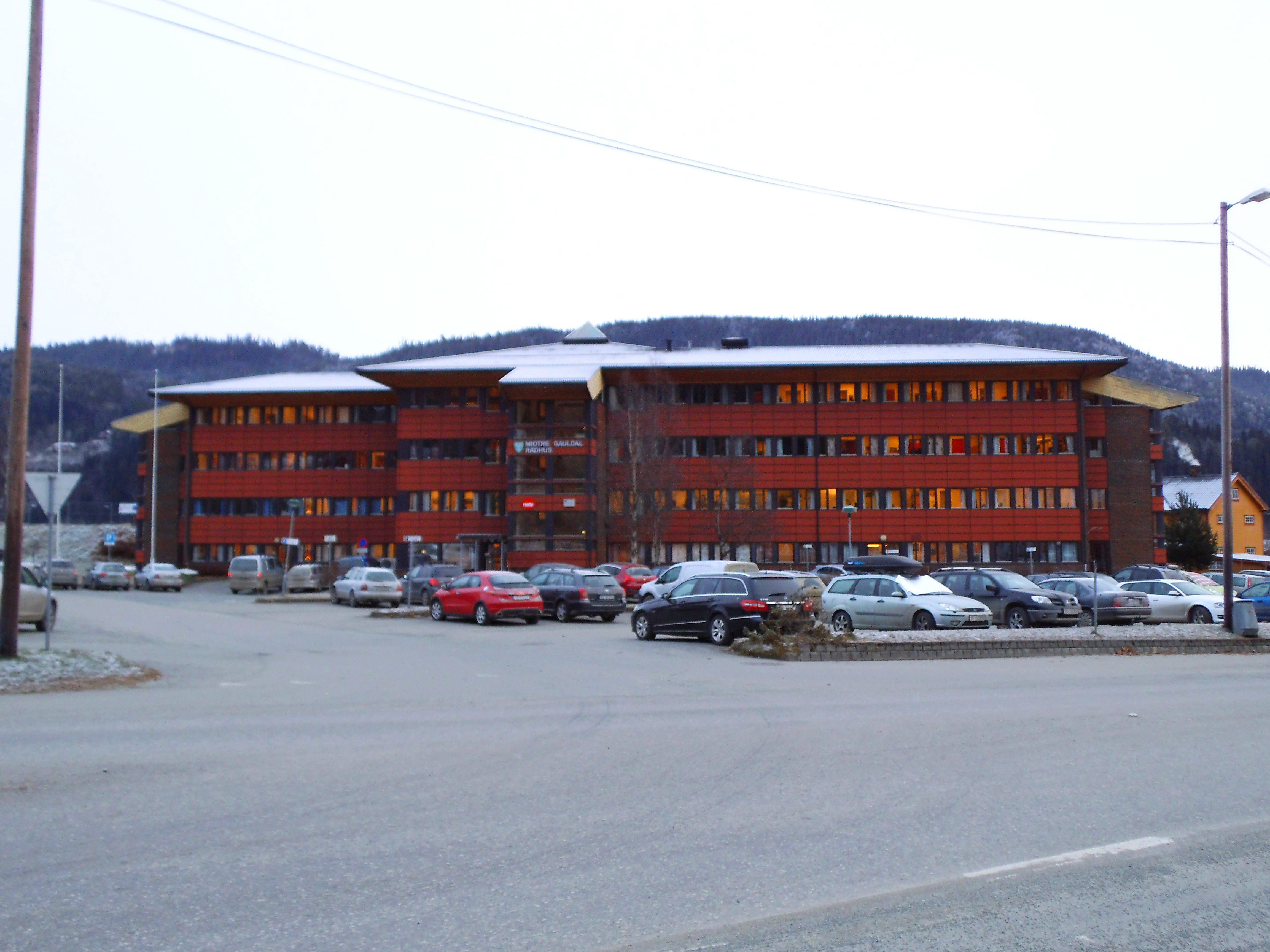 The town hall of Midtre Gauldal. Locaded in Støren.